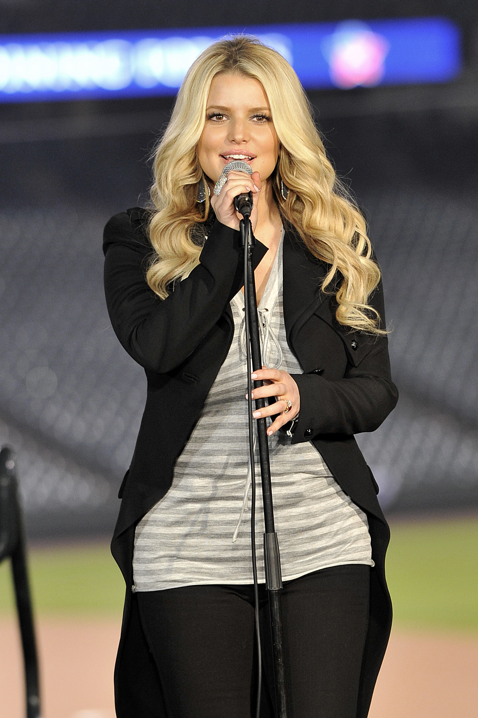 Jessica Simpson singing "God Bless America" to military families at the "Joining Forces with the Rockies: Celebrating Military Families" at Coors Field in Denver, on April 13, 2011.